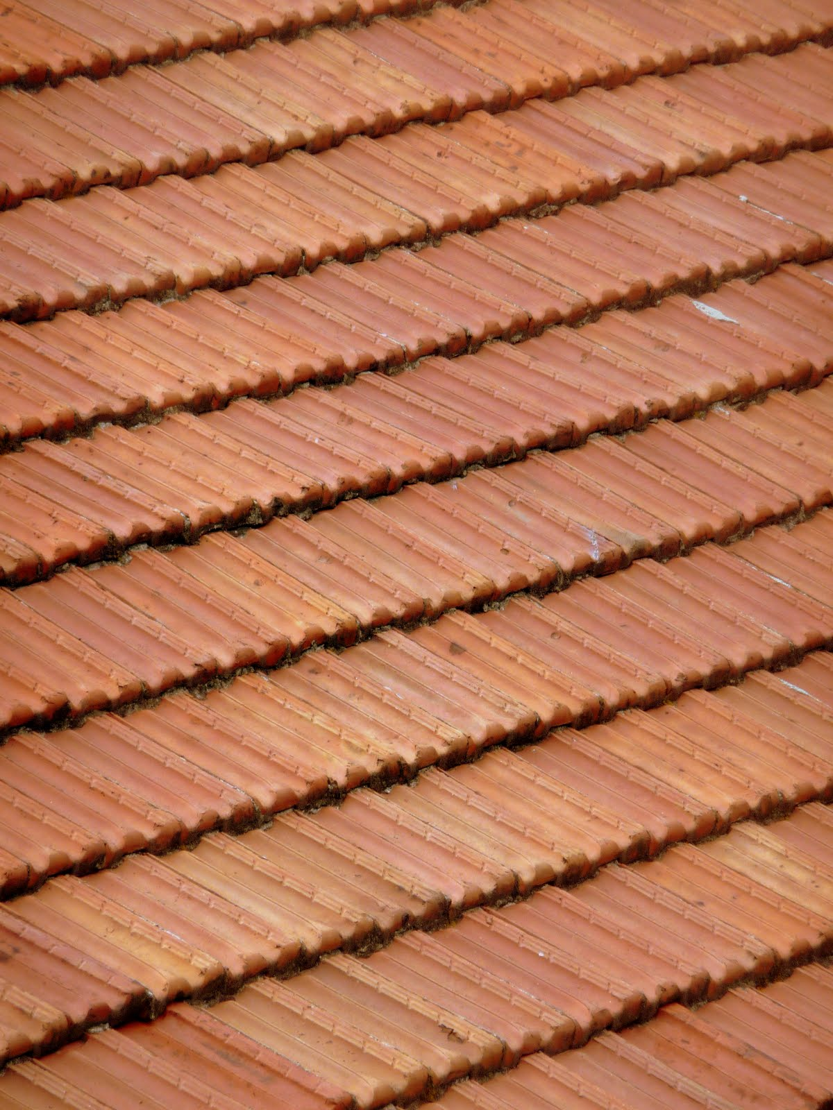 Red Roof